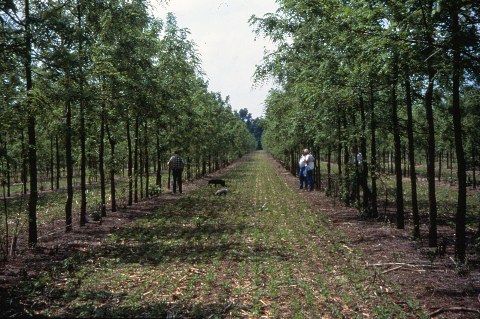 Alley cropping walnut and soybeans. East to west is best to maintain sunlight in alleys. Missouri, USA. Alley Cropping Page - NAC website Photographer: Natural Resources Conservation Service